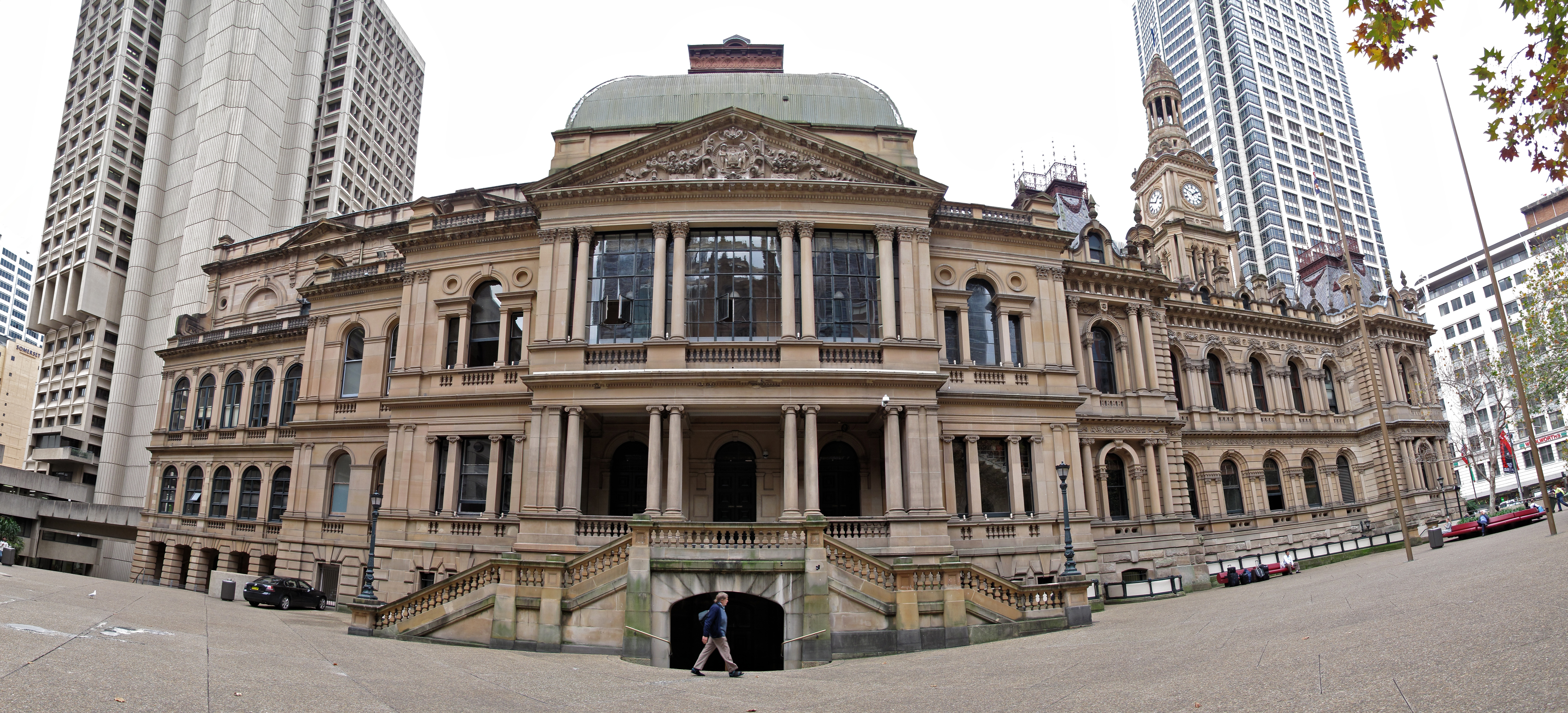 Sydney Town Hall, Australia